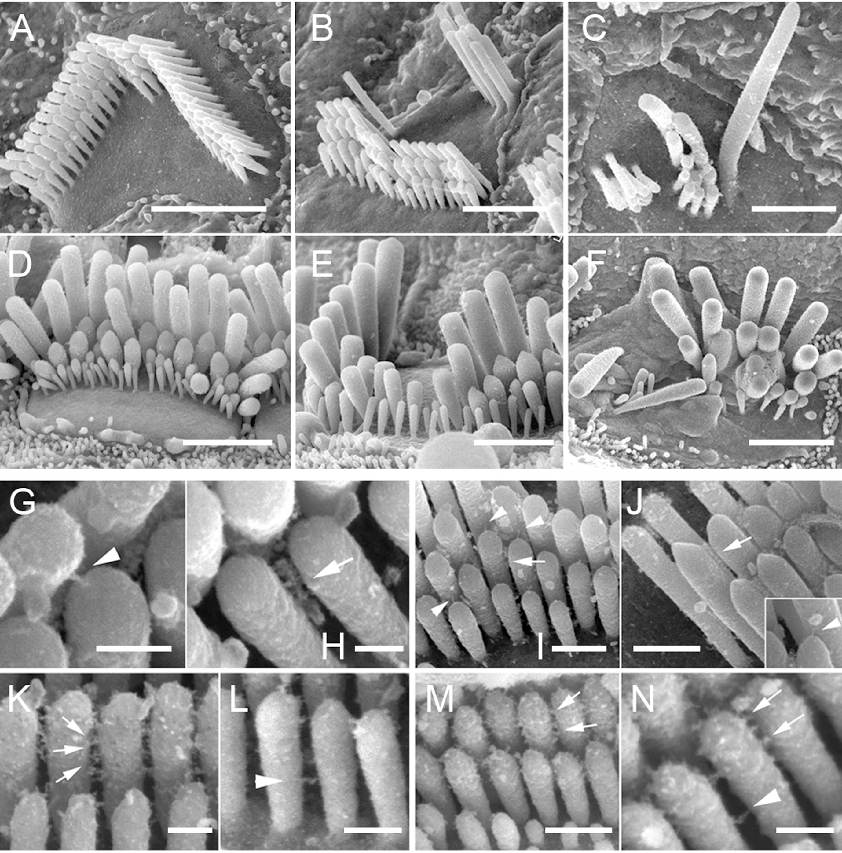 High resolution SEM images showing stereocilia bundles on outer (A–C, G–N) and inner (D–F) hair cells of wild type (A, D, G, H, K and L), Tlc/+ (B, E, I, M) and Tlc/Tlc (C, F, J and N) mice at P21 (G–J) and P7 (K–N). Note misshaped but staircase-like stereocilia bundles on hair cells of Tlc/+ animals (B and E) and disorganized bundles formed from fewer stereocilia of Tlc/Tlc mice (C and F). The horizontal connectors, tip links (G–J, tip links indicated by arrowheads, horizontal connectors indicated by arrows, inset on J shows high magnification image of tip link found between Tlc/Tlc stereocilia), lateral and ankle links (K–N, lateral links indicated by arrows, ankle links indicated by arrowheads) are present between Tlc/+ and Tlc/Tlc stereocilia and are indistinguishable from those of wild type mice. Scale bars: A–F-2 µm; G, H, K, L, N–200 nm; I, J and M–500 nm.